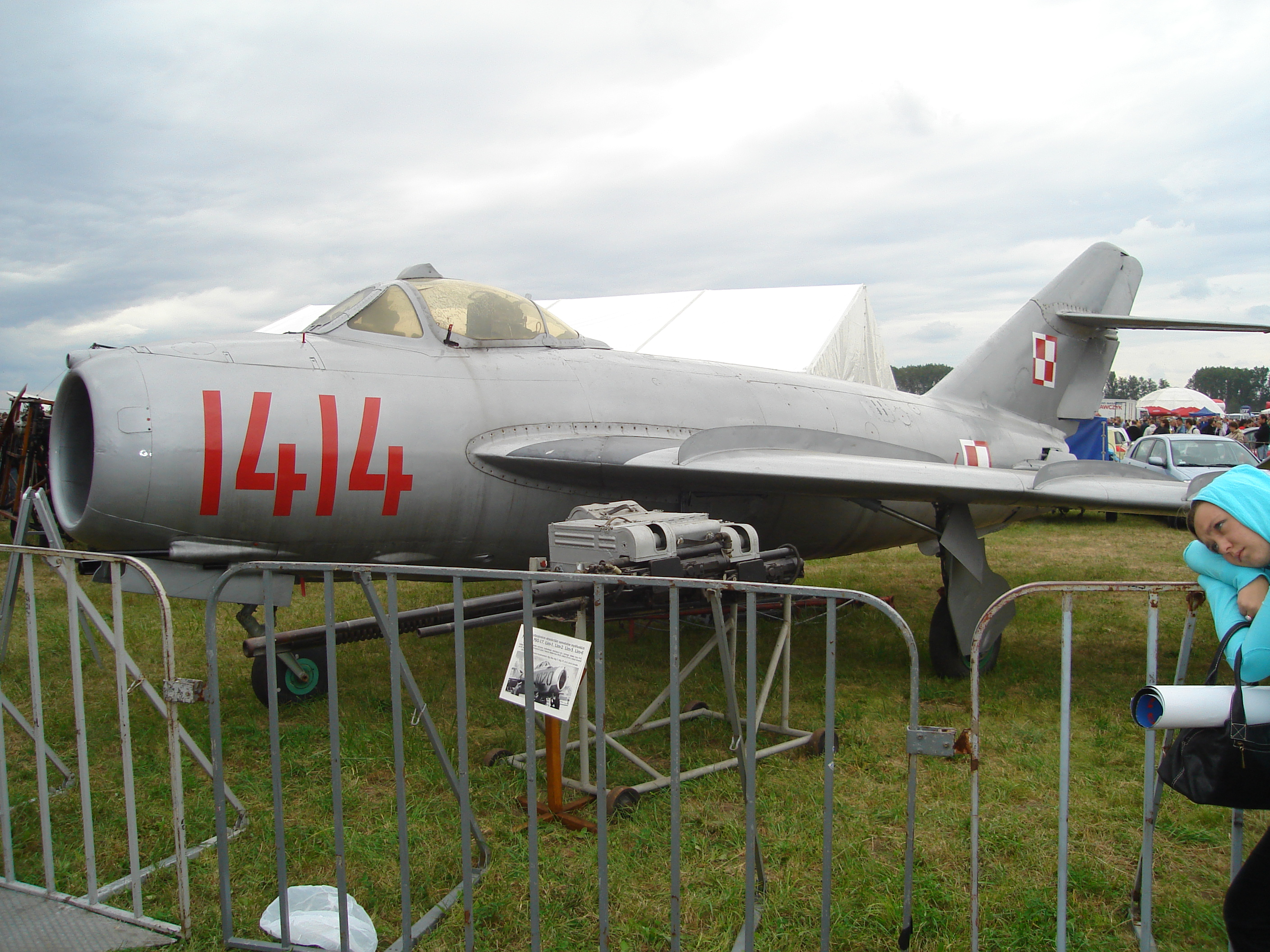 Picture of MiG-17, Radom Air Show 2007